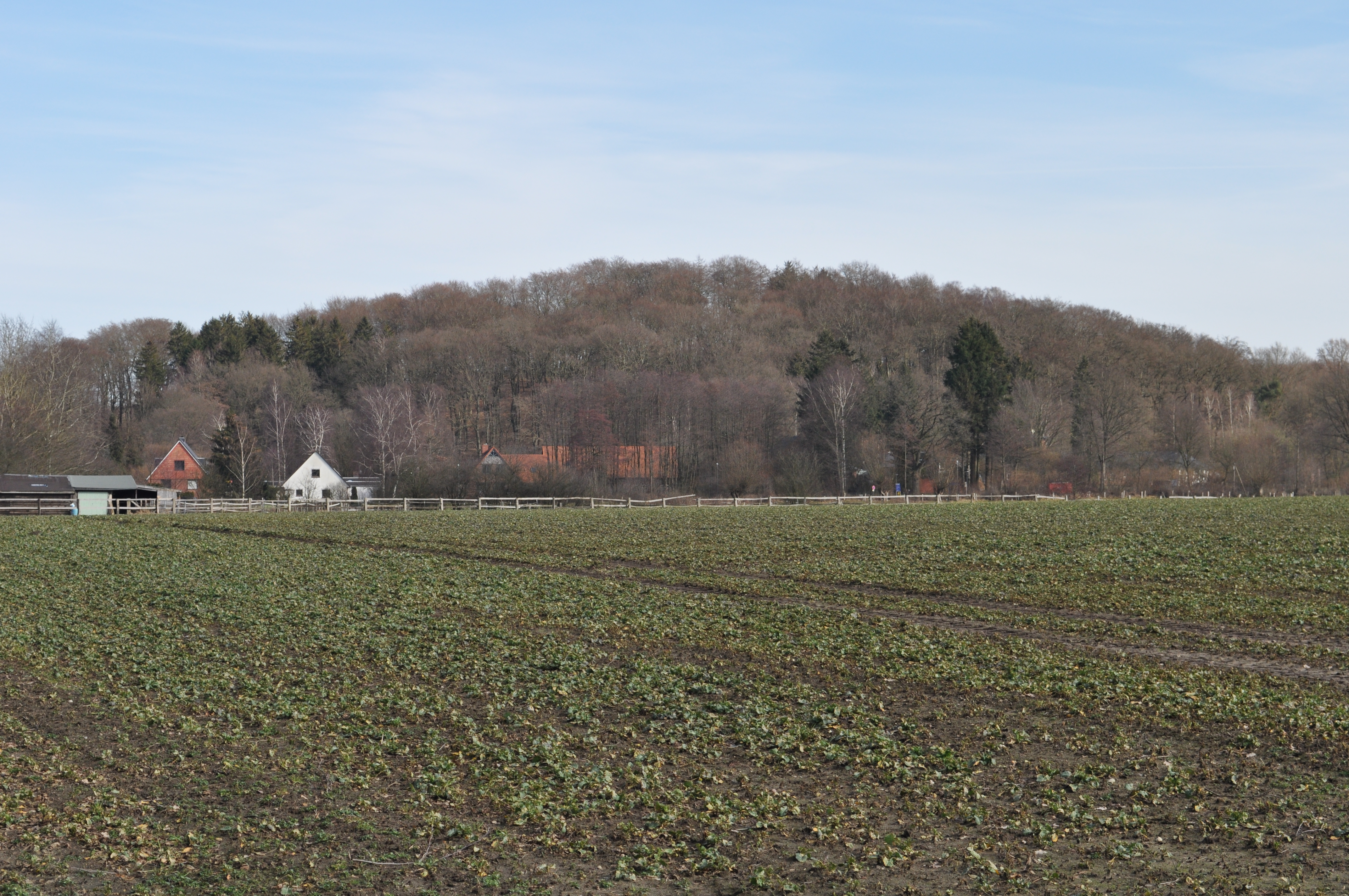 The 63 m high Schüberg in Ammersbek near Hamburg